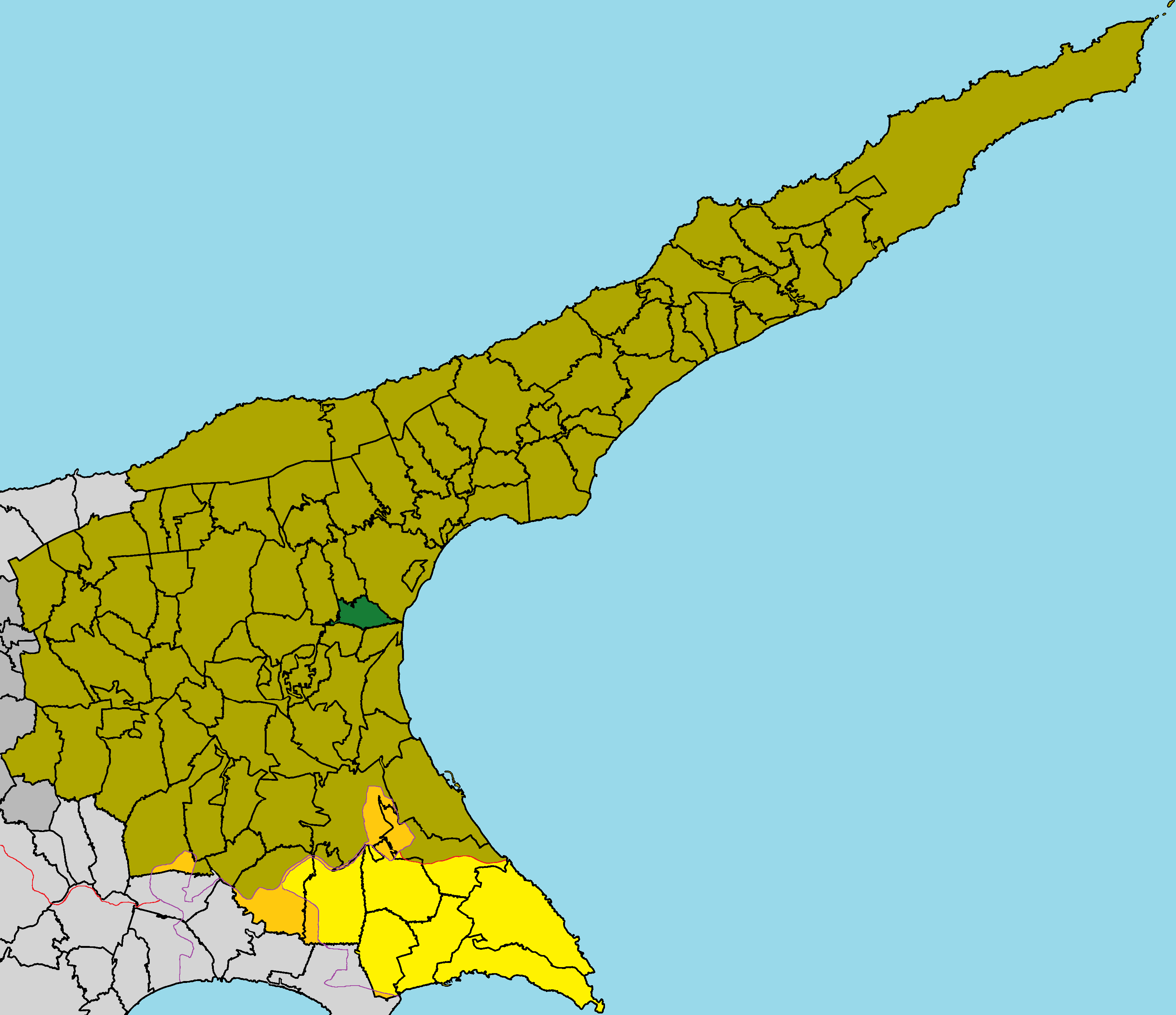 Agios Georgios Ammochostou in Famagusta District (de jure).